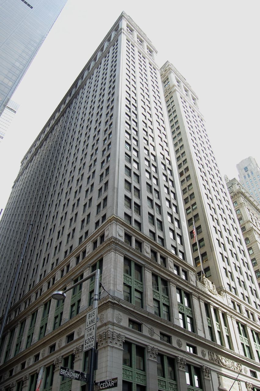 Corner view of the Equitable Building in downtown Manhattan at Broadway and Cedar.